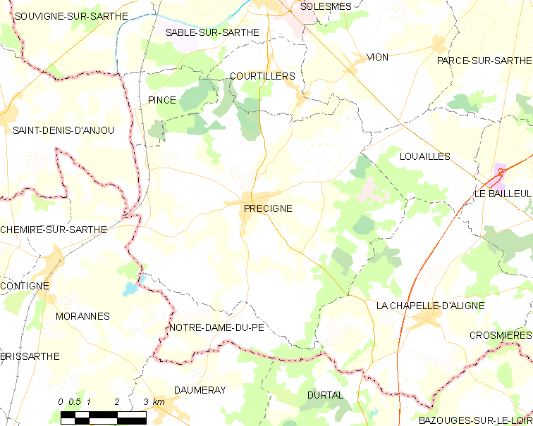 Map of French municipality